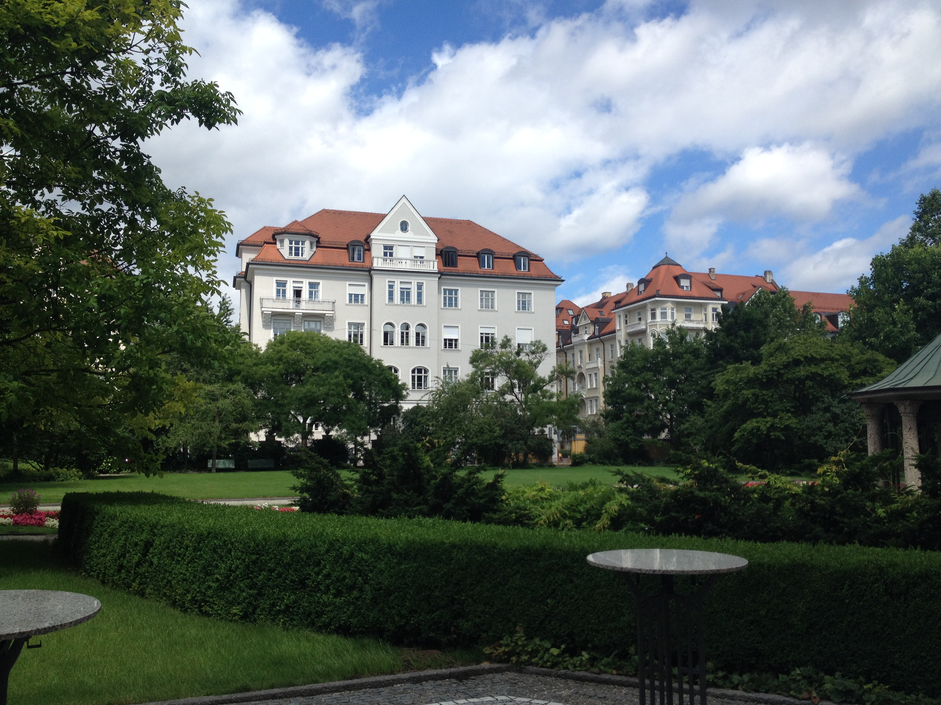 for Munich RE wiki page